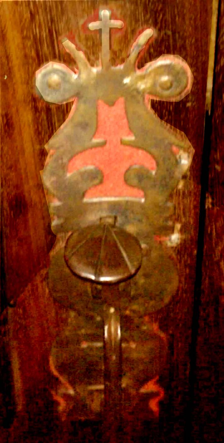 Sistem of opening doors in little villages in Leon, Spain